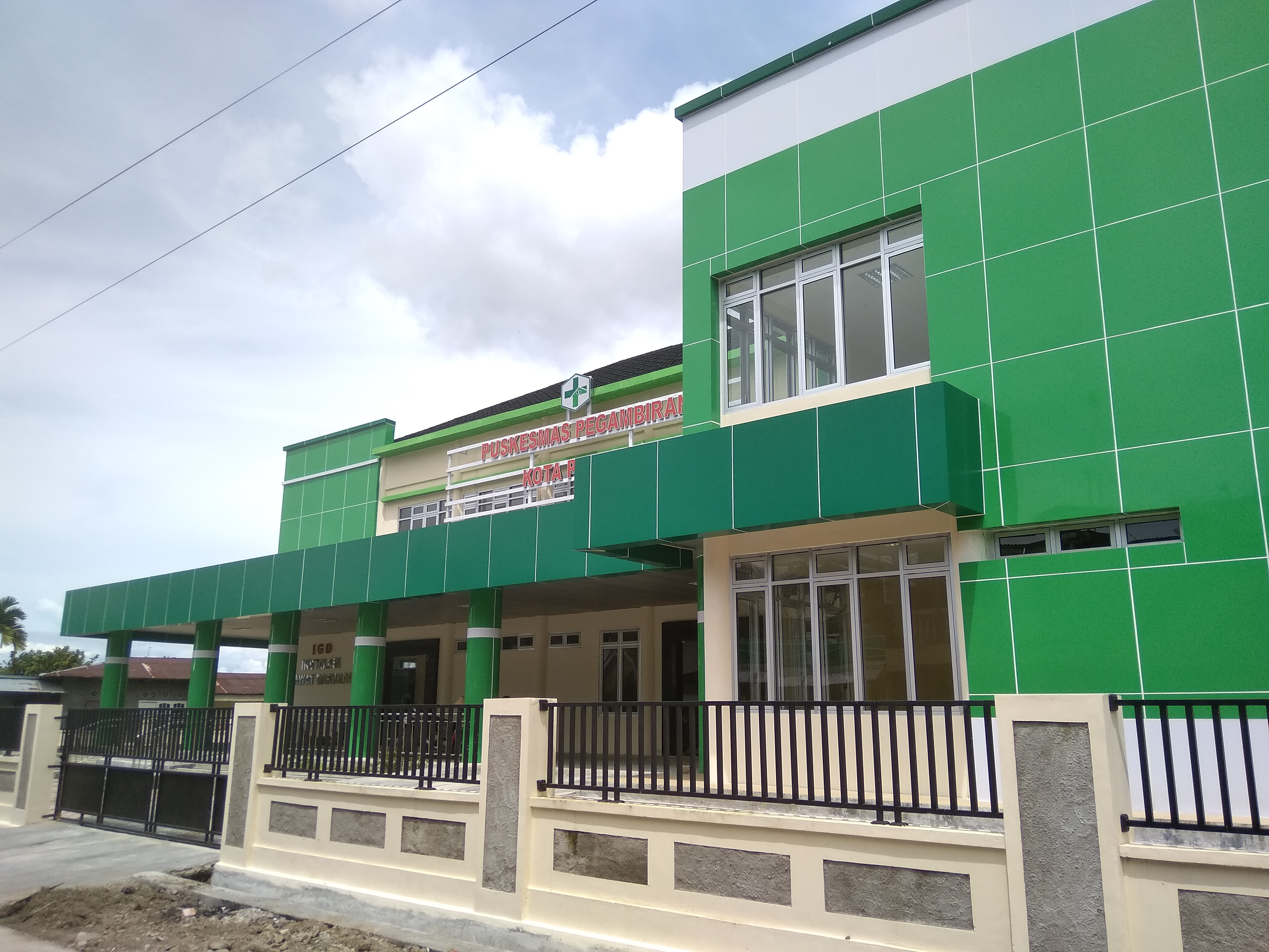 Pegambiran Health Center on Pirus Raya street, Pegambiran Ampalu Nan XX Village, Lubuk Begalung District, Padang City, West Sumatra, Indonesia.